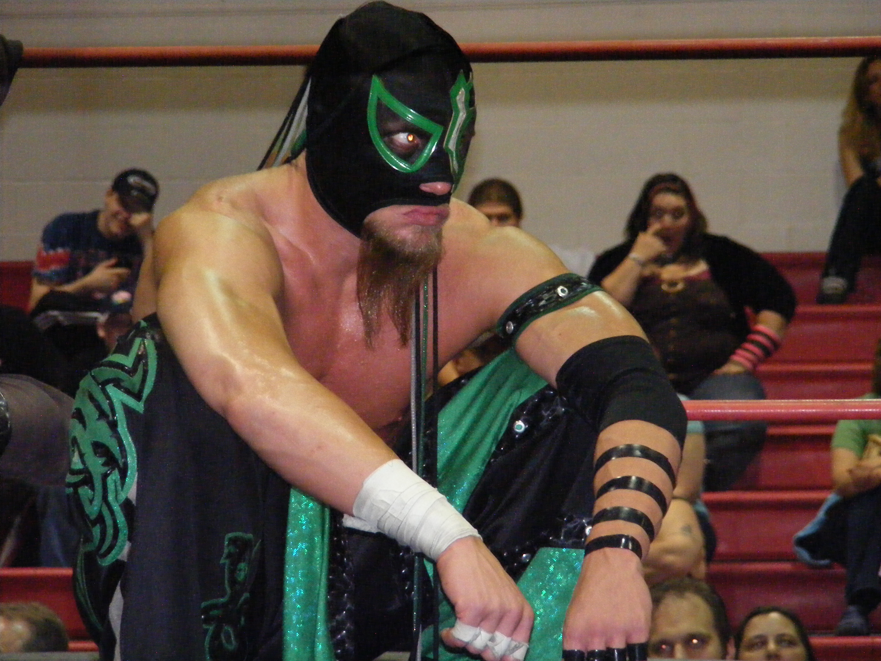 Professional wrestler Delirious (real name William Hunter Johnston) at a APW show in May 2009